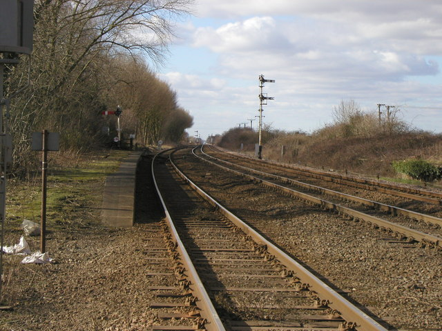 The Hull to Leeds/London Line, south of Melton, East Riding of Yorkshire, England.Taken at the crossing at MR: SE96962571 looking in a NWW direction towards Brough.